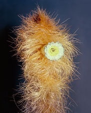 Plant of holotype collection, N Goias, Brasil